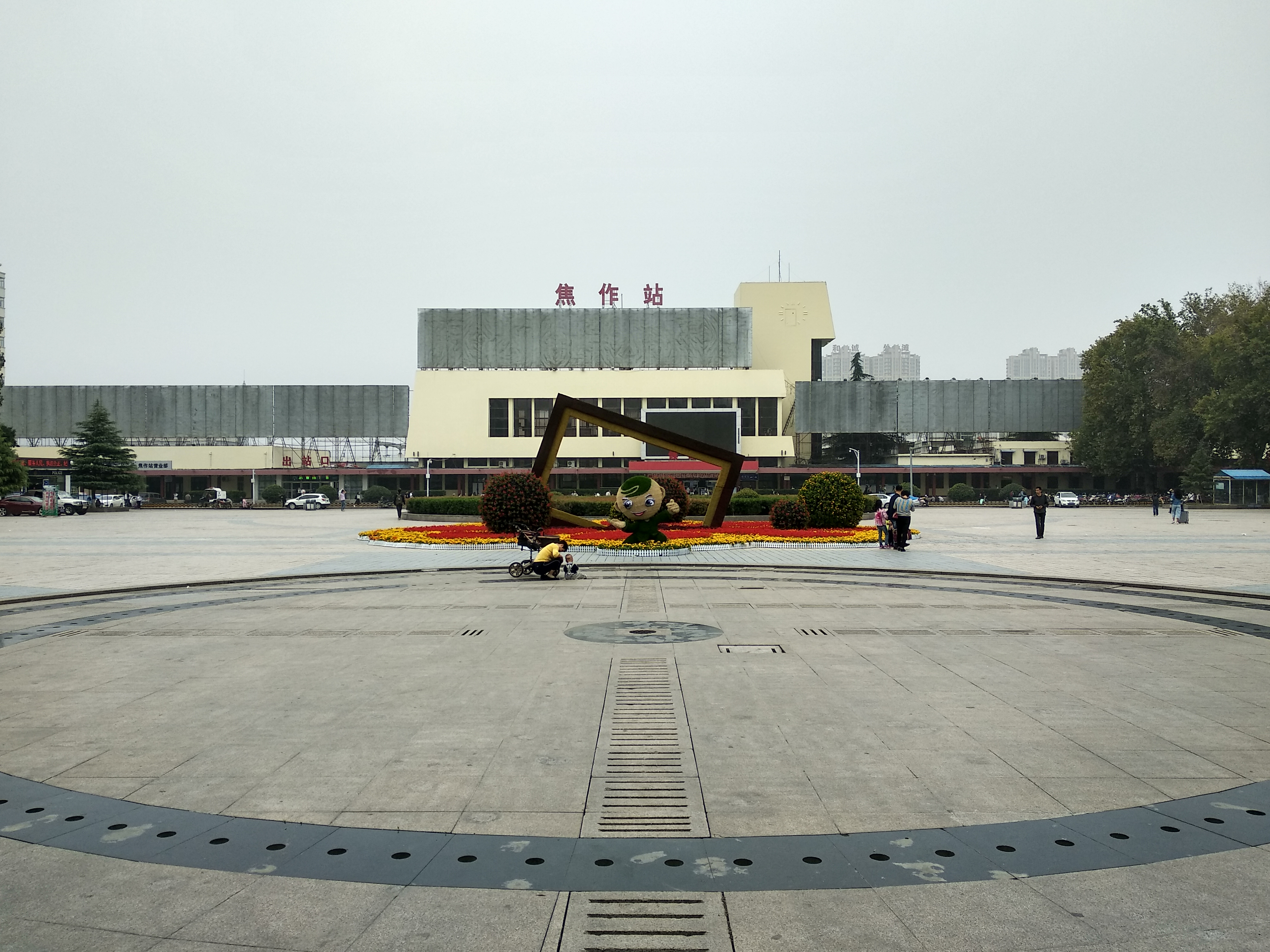 Jiaozuo Railway Station in October 2017.